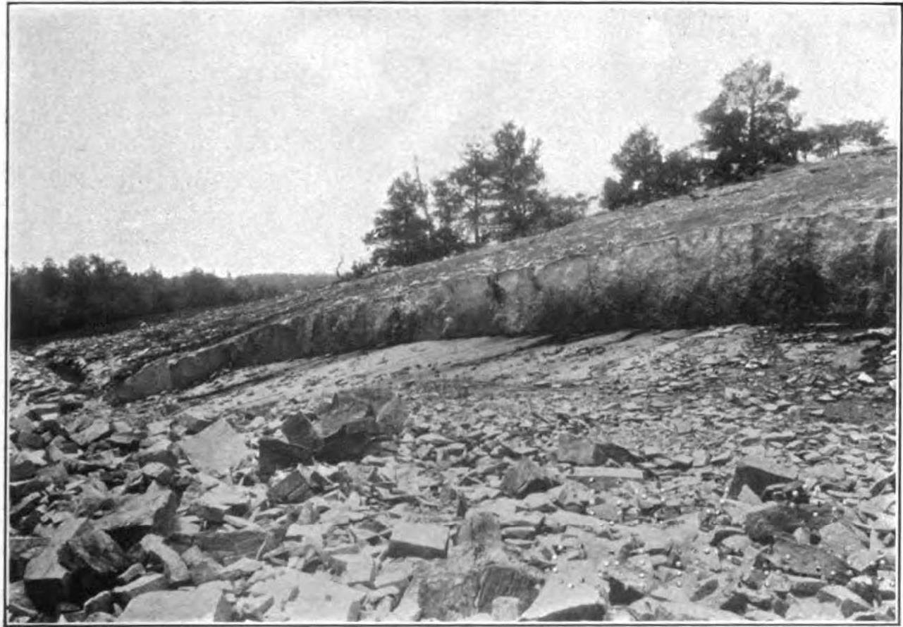 Plate XXVII B, original caption: "Quarry face of granite gneiss, Arabia Mountain Quarries, near Lithonia, DeKalb County, GA." Photo c. 1910.